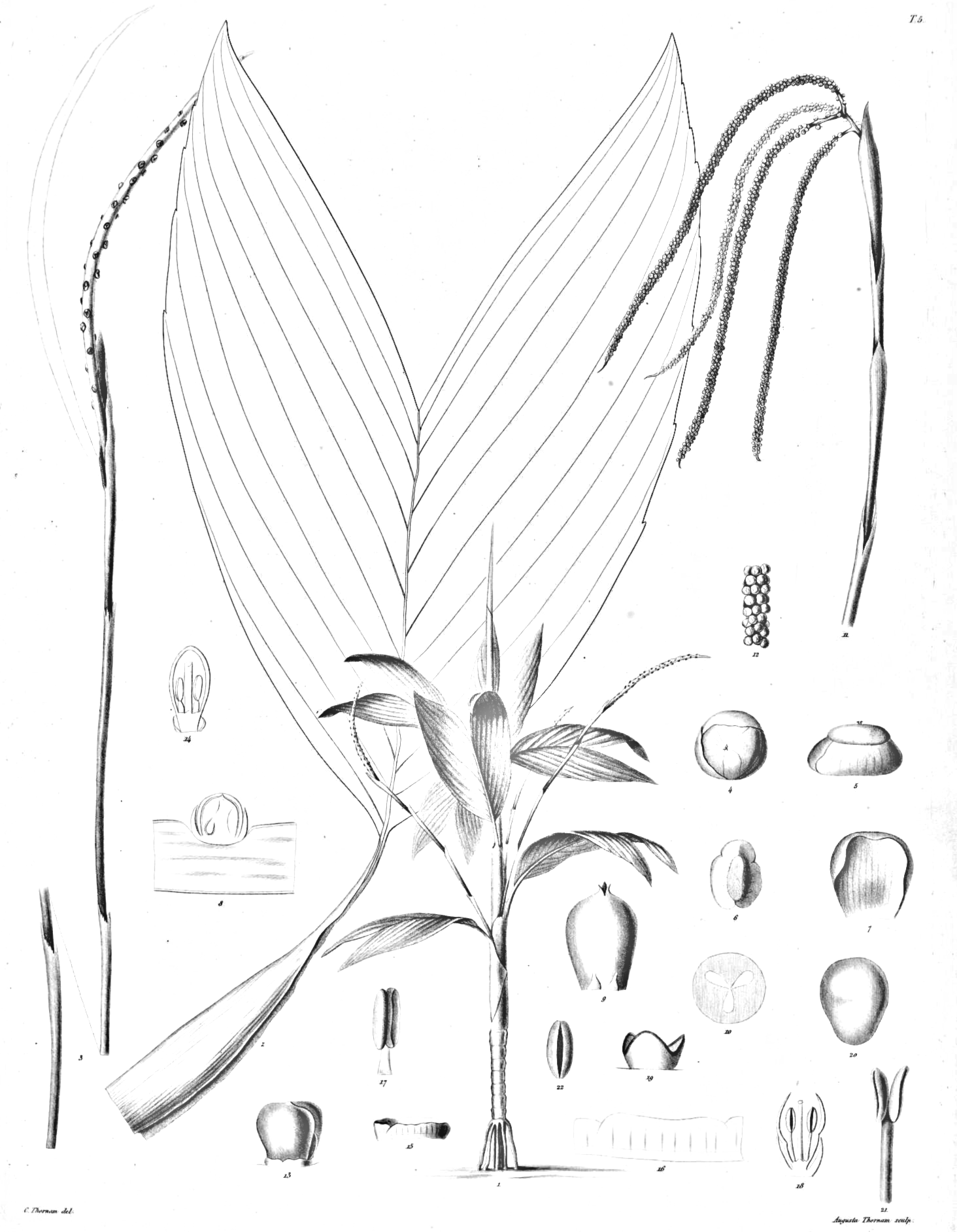 Plate from book